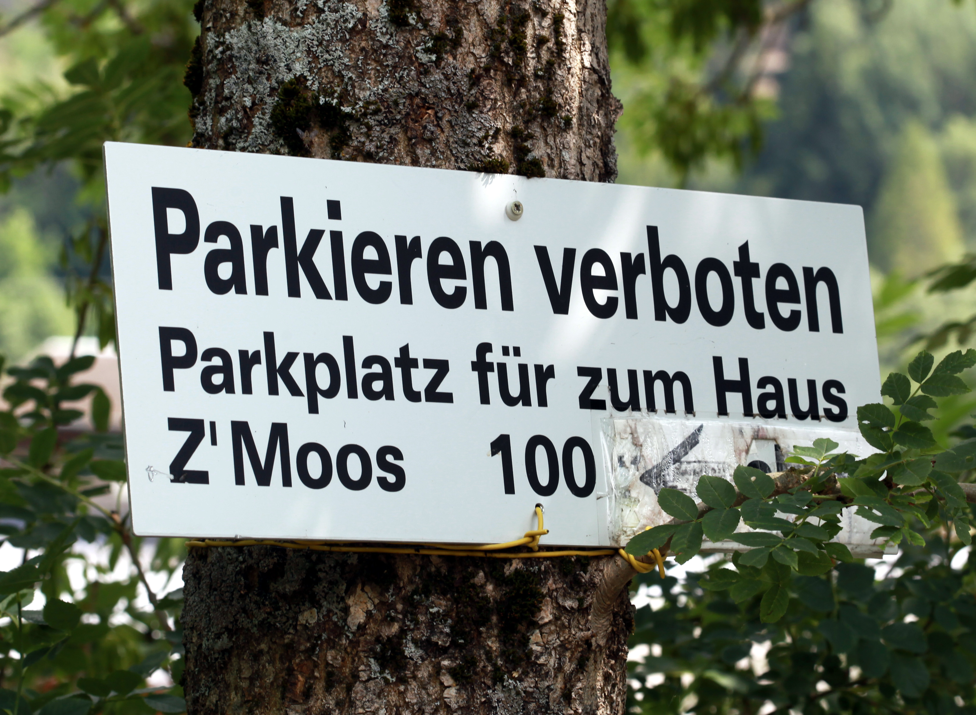 Sign, located in Fiesch, Valais (Switzerland).